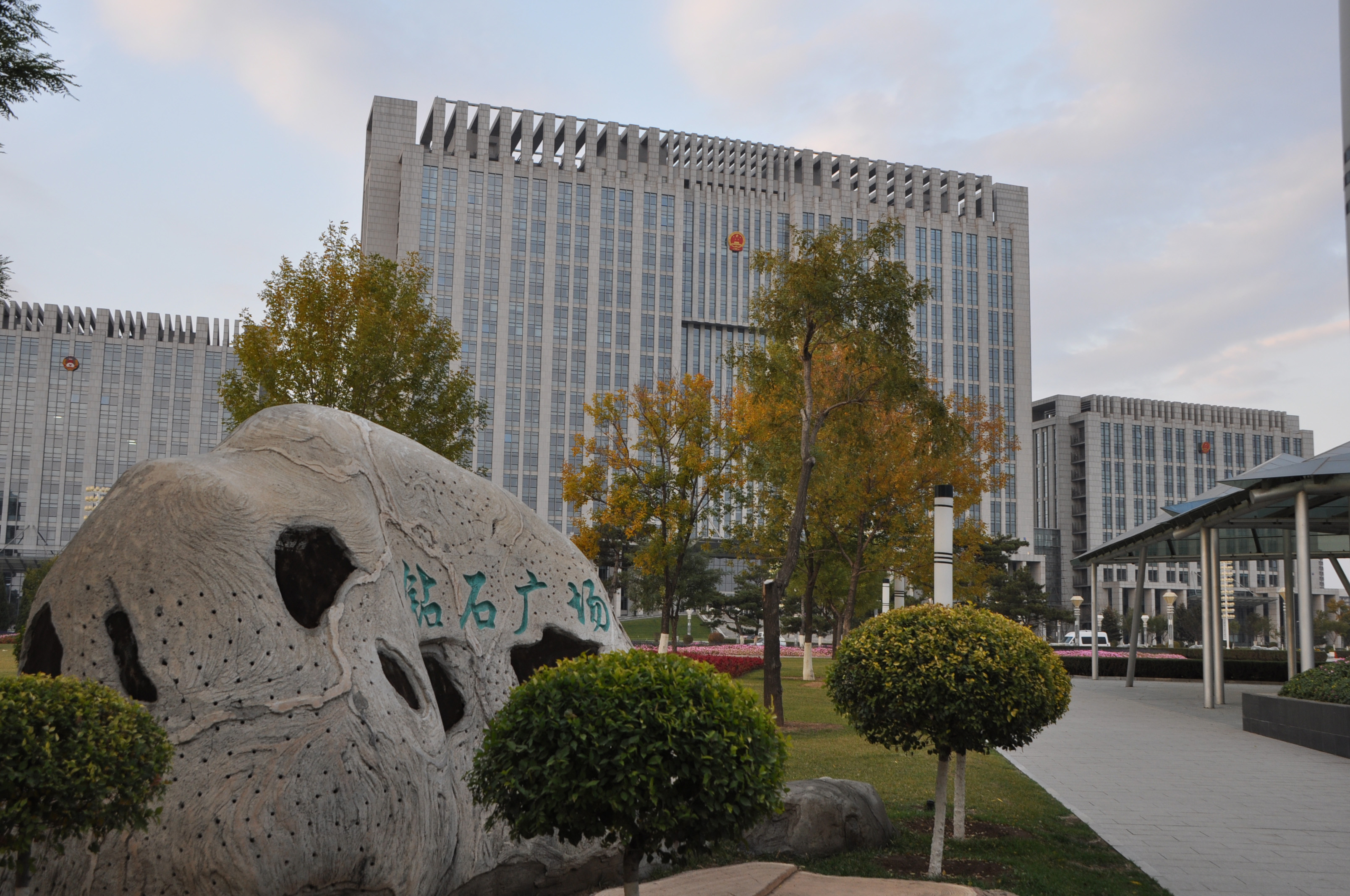 Tieling City Government Bldg. - New